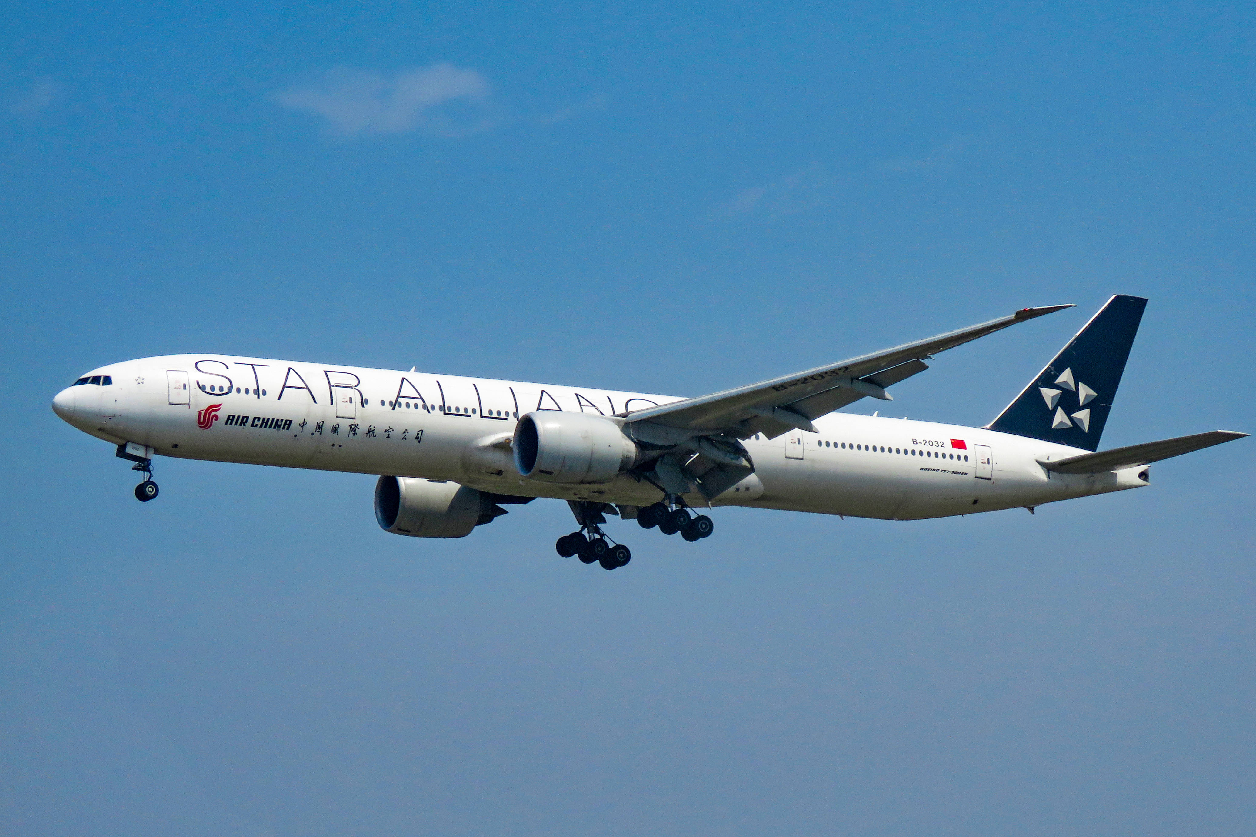 Air China 820 from Newark, NJ. Two Star Alliance logojets of CA...